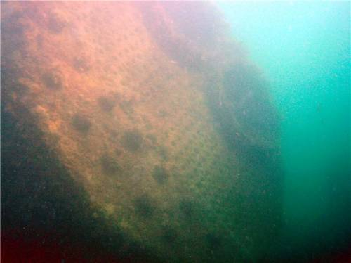 Wreck "Kyibyshev"